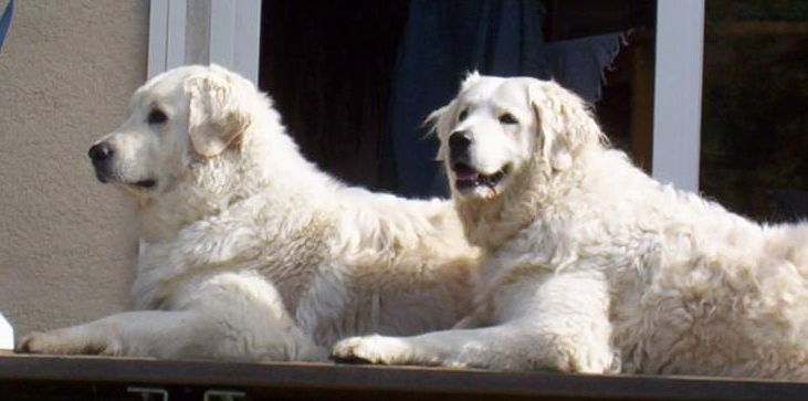 Kuvasz dogs